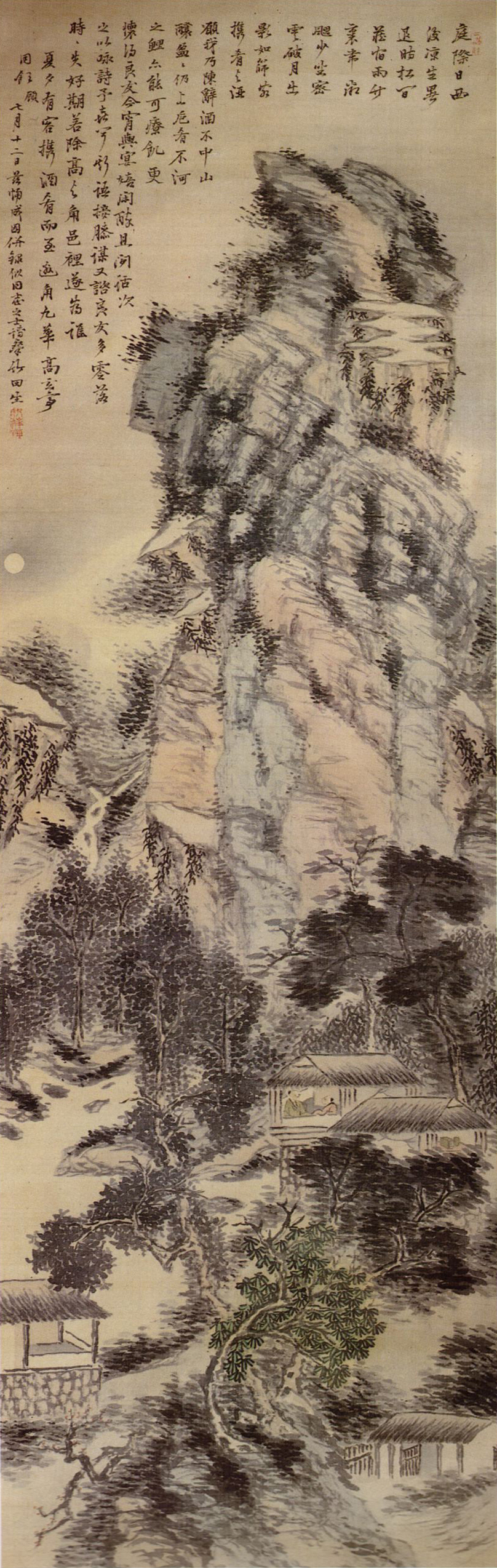 Coversation under the Full Moon,Ink color on paper,hanging scroll 月夜山水図 紙本淡彩